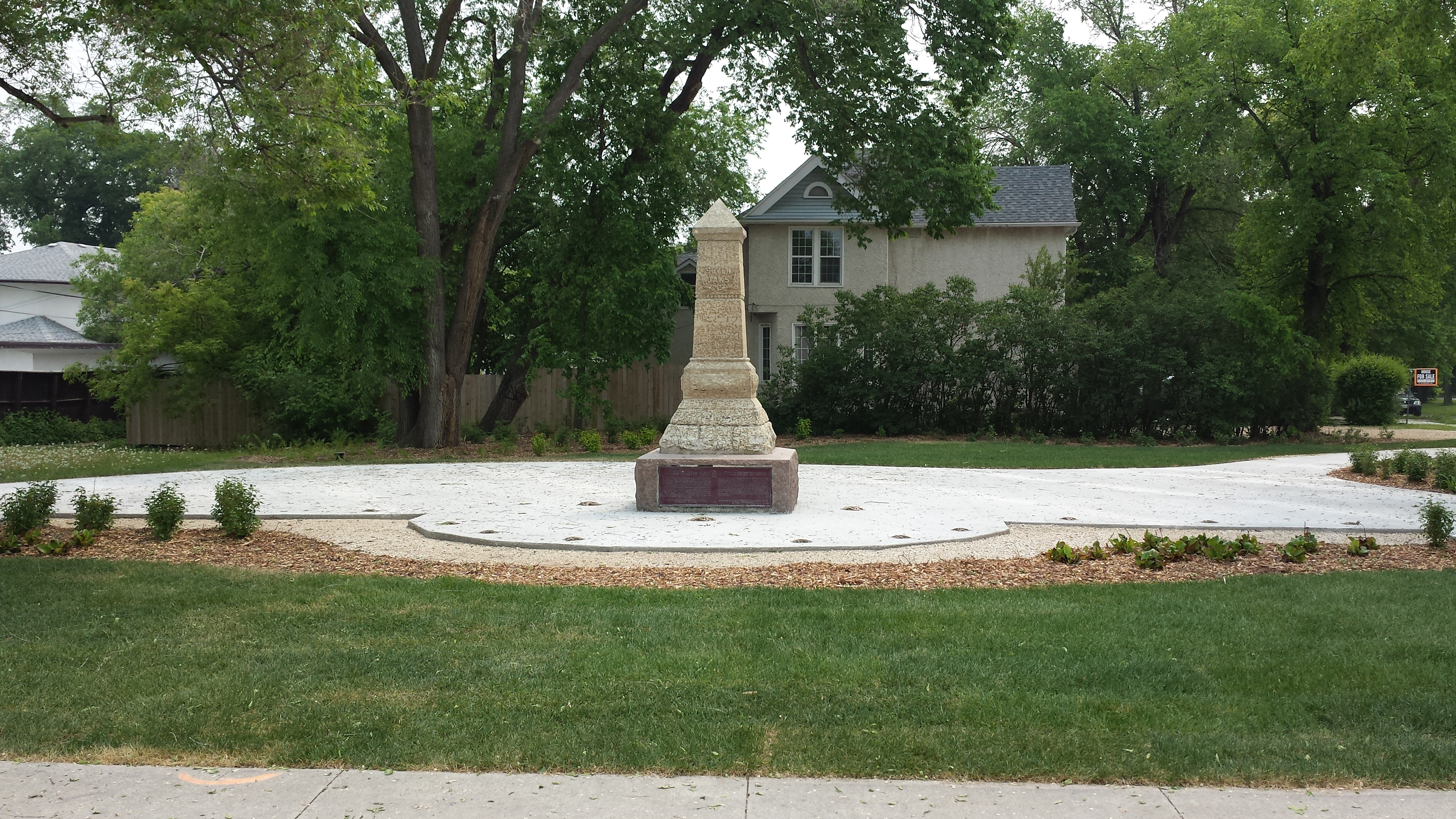 Photograph of monument commemorating the battle of Seven Oaks in Winnipeg Manitoba (renovations to the site completed about 2 weeks prior).